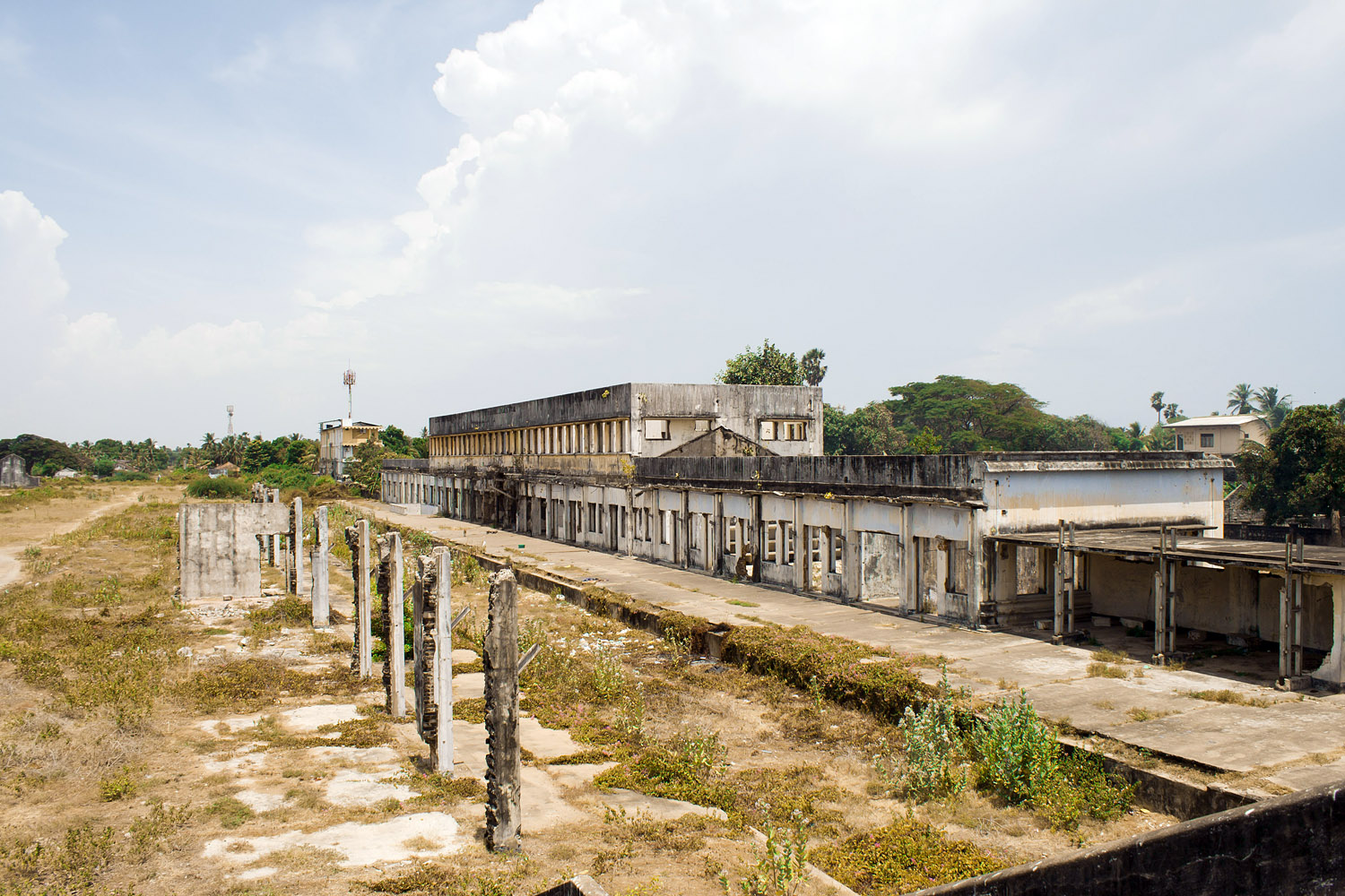 The railway station at Jaffna. It's been abandoned for a few decades now, and it shows. Nice place to go take some dramatic portraits.